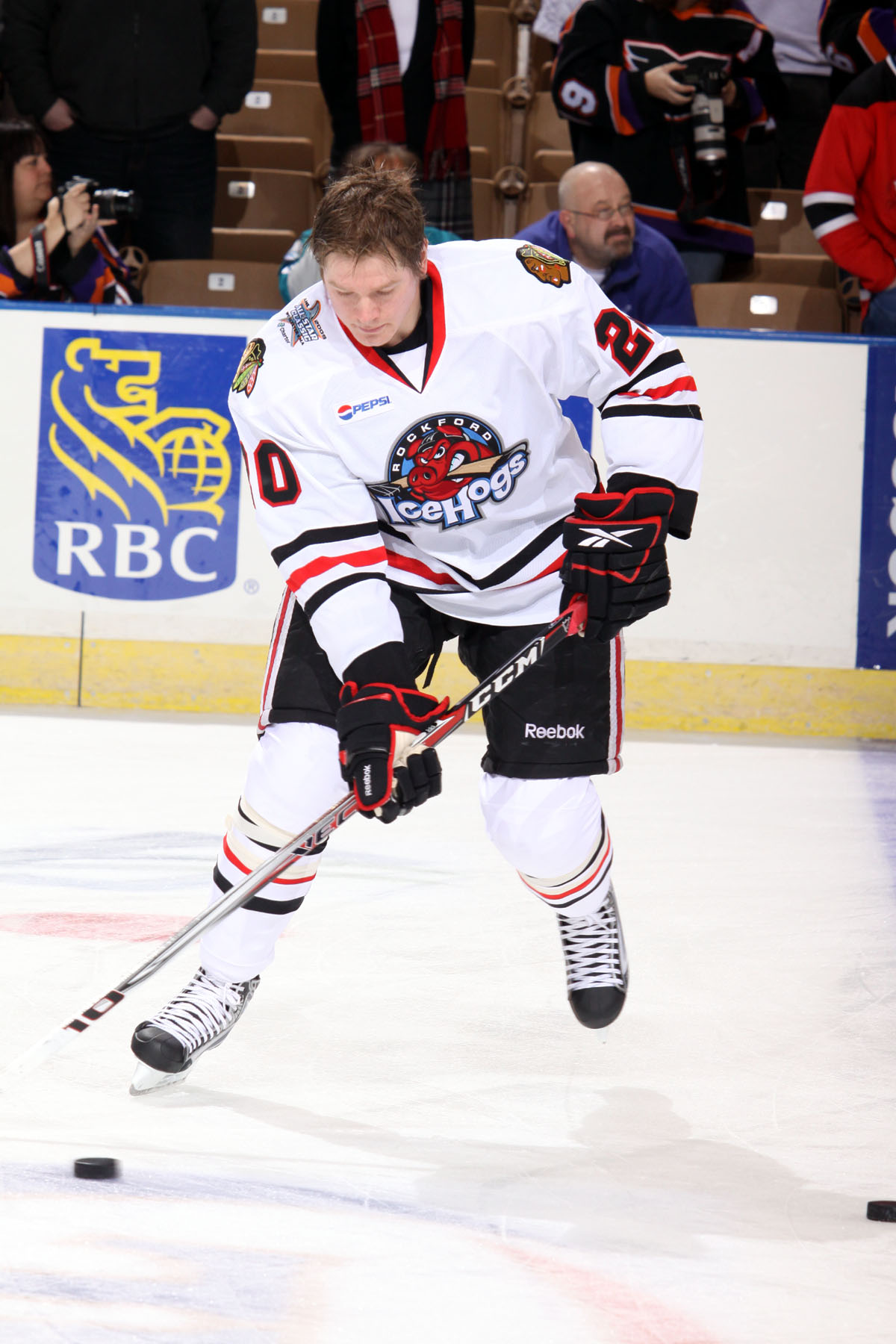 JustSports Photography/AHL